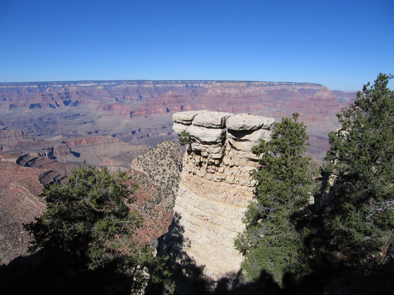 Grand Canyon (2005, Nov)